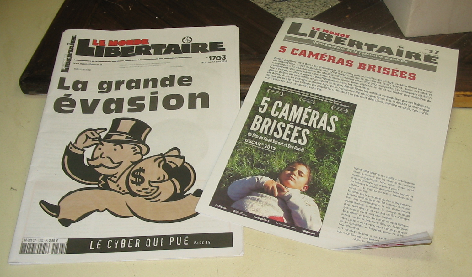 magazine Monde libertaire